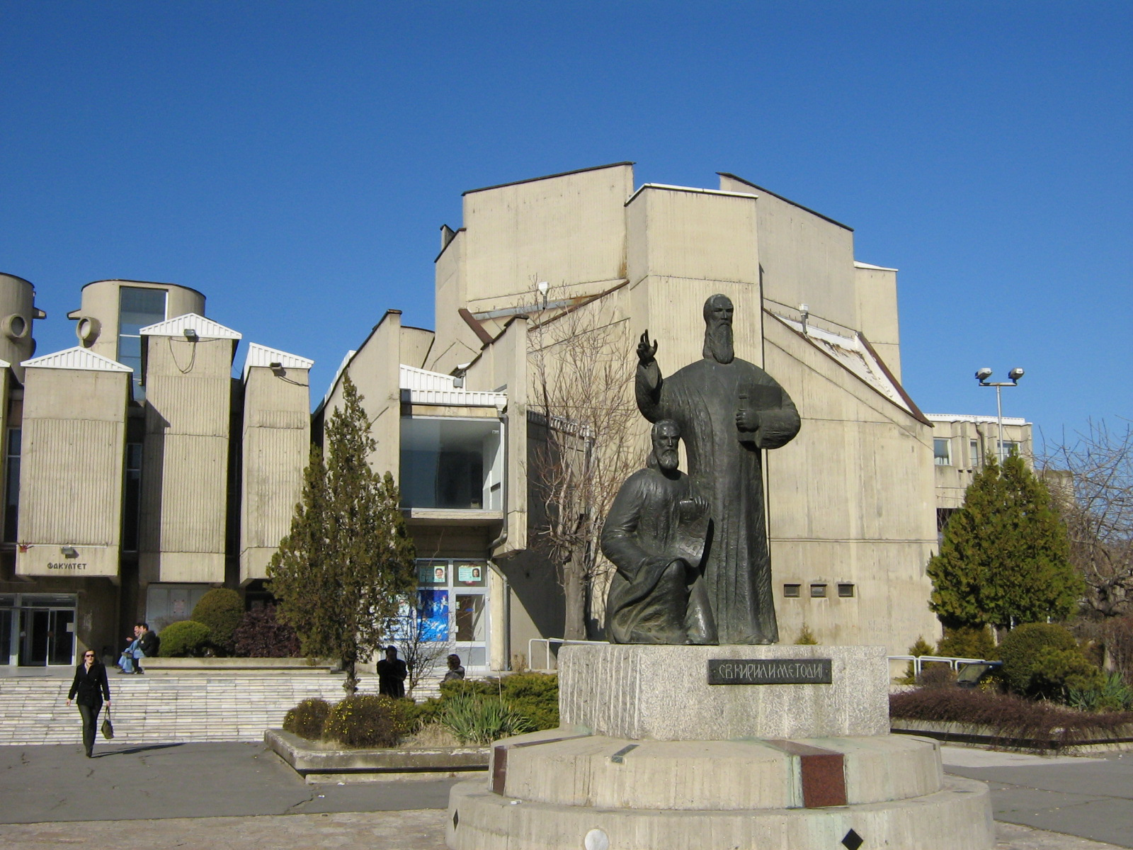 Ss Cyril and Methodius University campus, Skopje, Macedonia